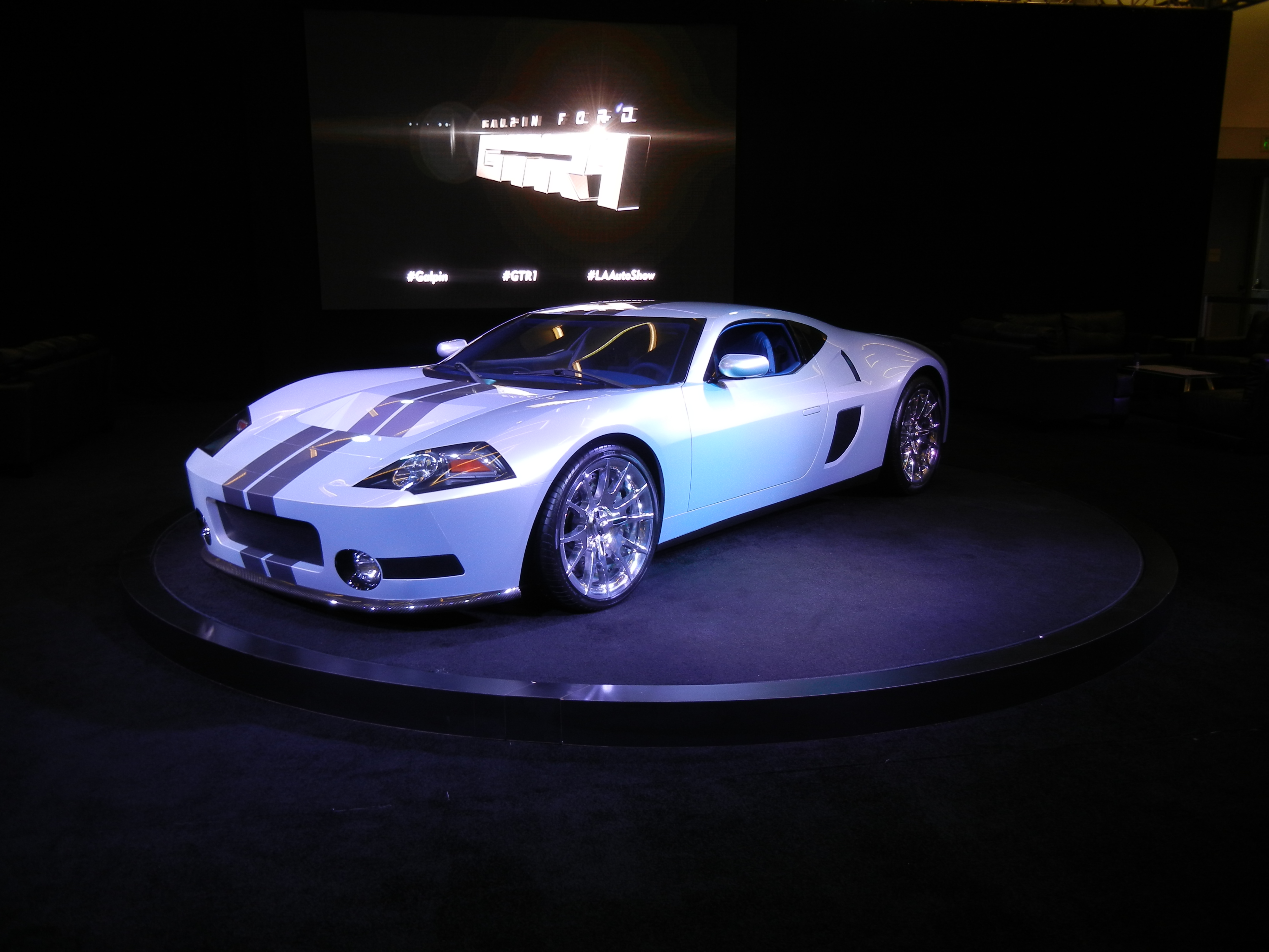 Galpin GTR1 at 2013 LA Auto Show